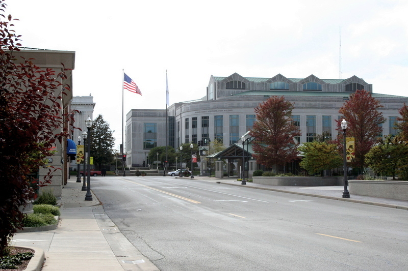 A picture of downtown Edwardsville, Illinois with the Madison County Administrative Building in the background.